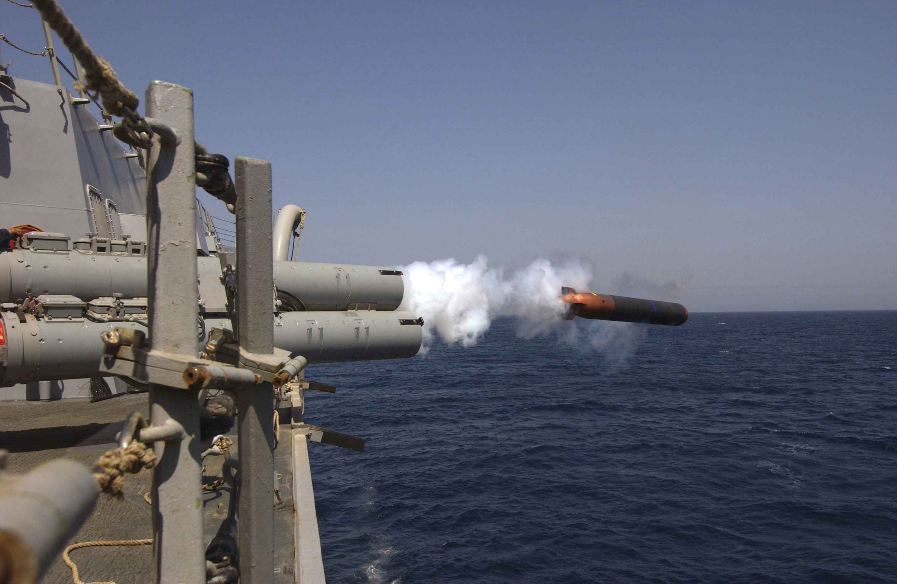 Arabian Gulf (June 26, 2004) – An Anti-Submarine Warfare (ASW) MK-50 Training Torpedo is launched from guided missile destroyer USS Bulkeley (DDG 84) while participating in exercises aimed at fighting the global war on terrorism. The Norfolk, Va. based Bulkeley is on a regularly scheduled deployment in support of Operation Iraqi Freedom (OIF). U.S. Navy photo by Photographer’s Mate 1st Class Brien Aho (RELEASED)